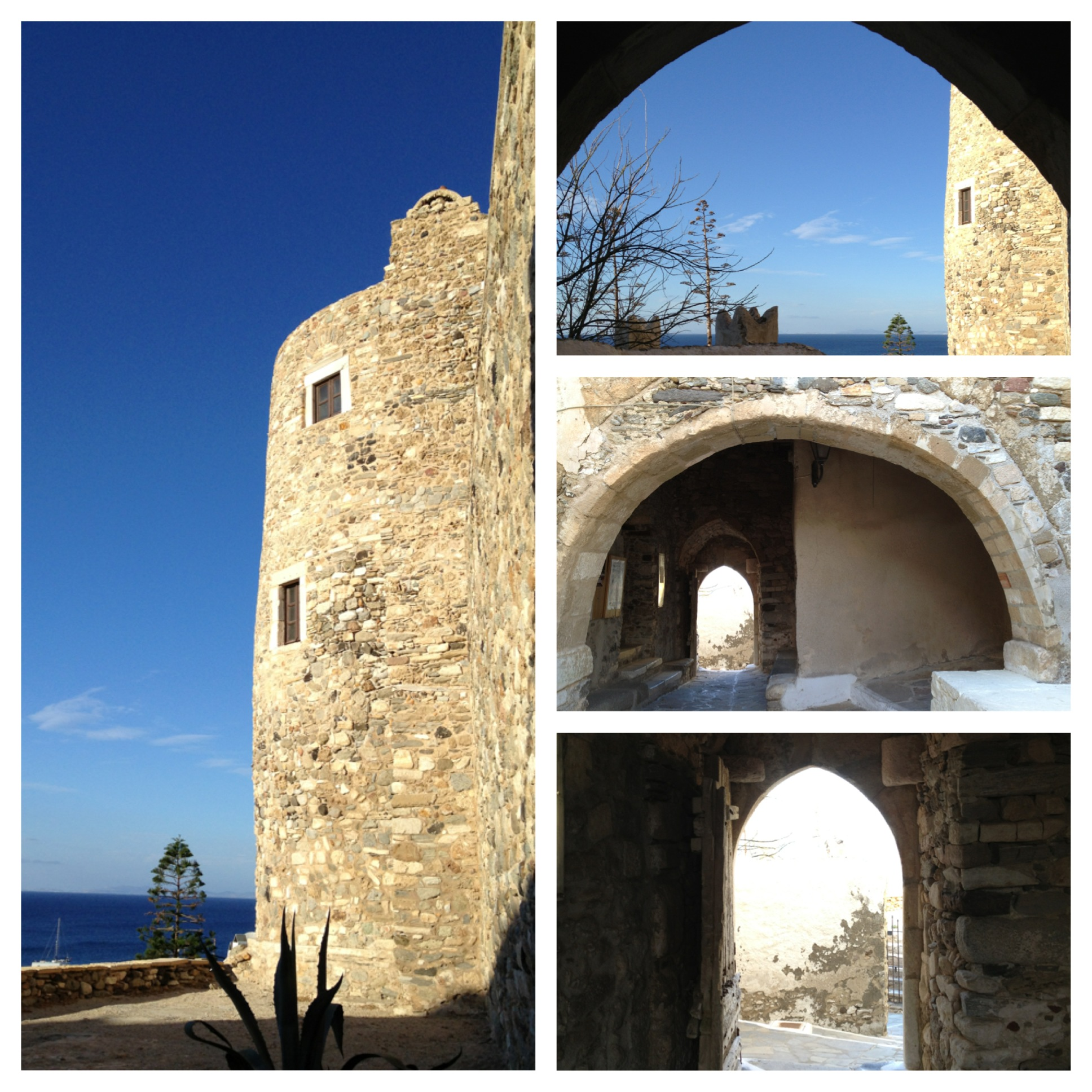 Castle of Naxos island in Greece